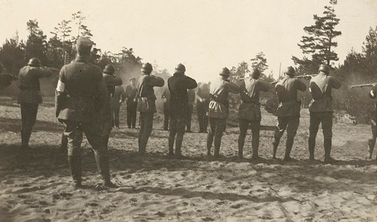 Execution of Red Guard prisoners in Santahamina, Helsinki 1918.